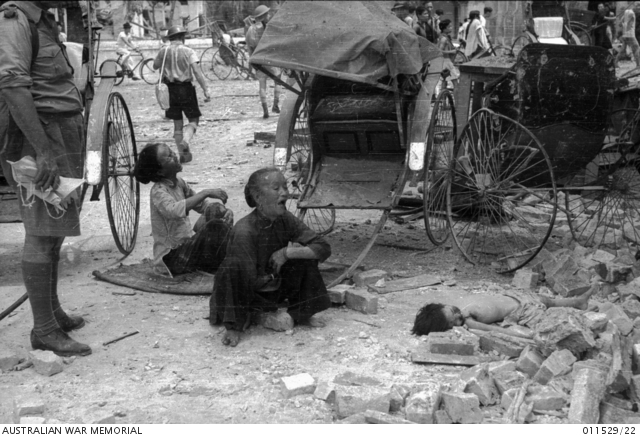 TWO WOMEN SIT ON THE STREET AMONG RUBBLE AND DEBRIS WAILING AND CRYING, SHOWING THEIR GRIEF FOR THE SMALL CHILD WHOSE DEAD BODY LIES NEARBY IN FRONT OF A DAMAGED RICKSHAW AFTER A JAPANESE AIR ATTACK.